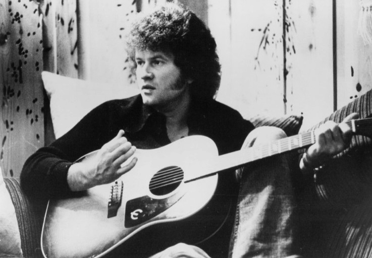 Publicity photo of Terry Jacks.